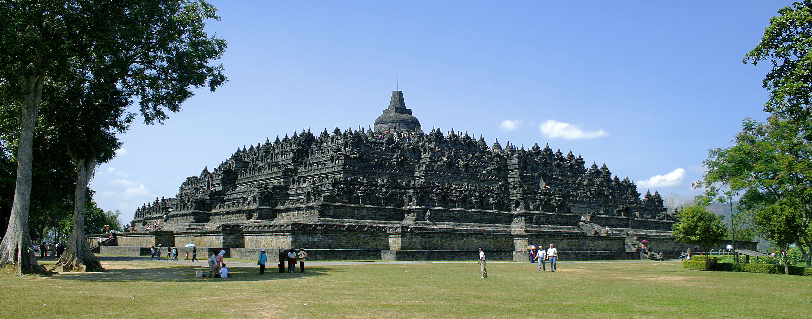 Borobudur temple view from northwest plateau, Central Java, Indonesia.